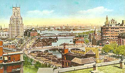 Suzhou Creek in the 1930s